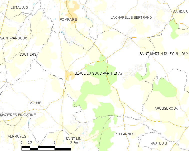 Map of French municipality Beaulieu-sous-Parthenay